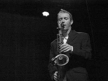 Jake McMurchie saxophone player in Aarhus Denmark 2013